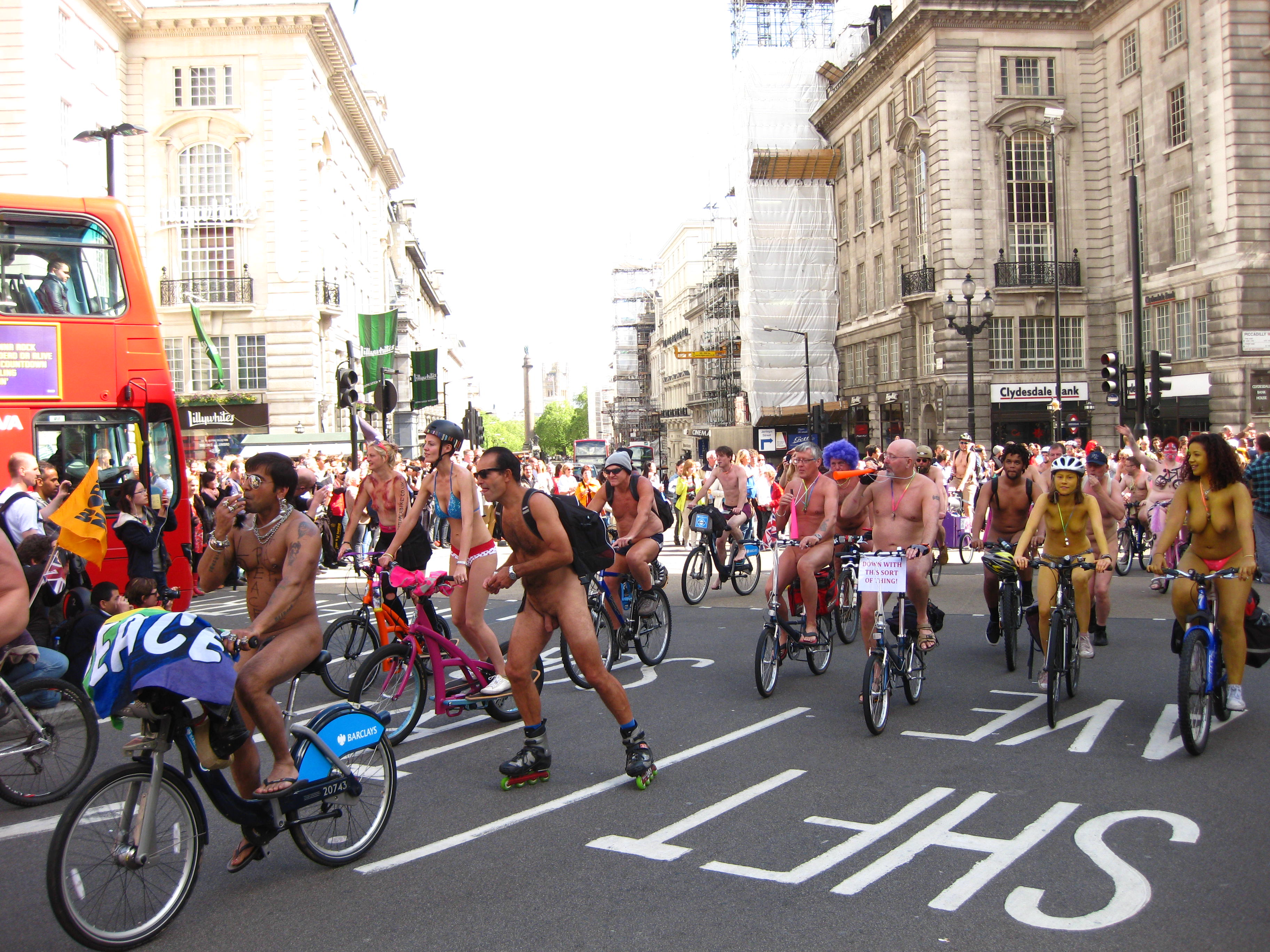 World Naked Bike Ride, 2012, London